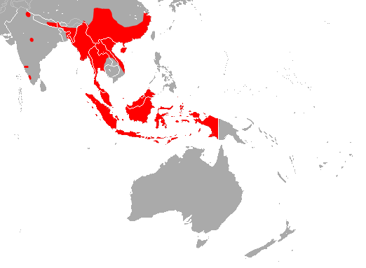 Woolly Horseshoe Bat (Rhinolophus luctus) range